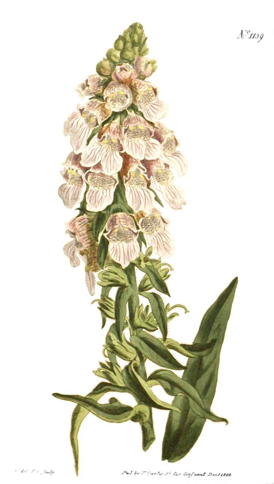 Illustration of Digitalis lanata